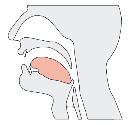 phonological anatomy (see with arrows Image:Phonological anatomy_1.png)